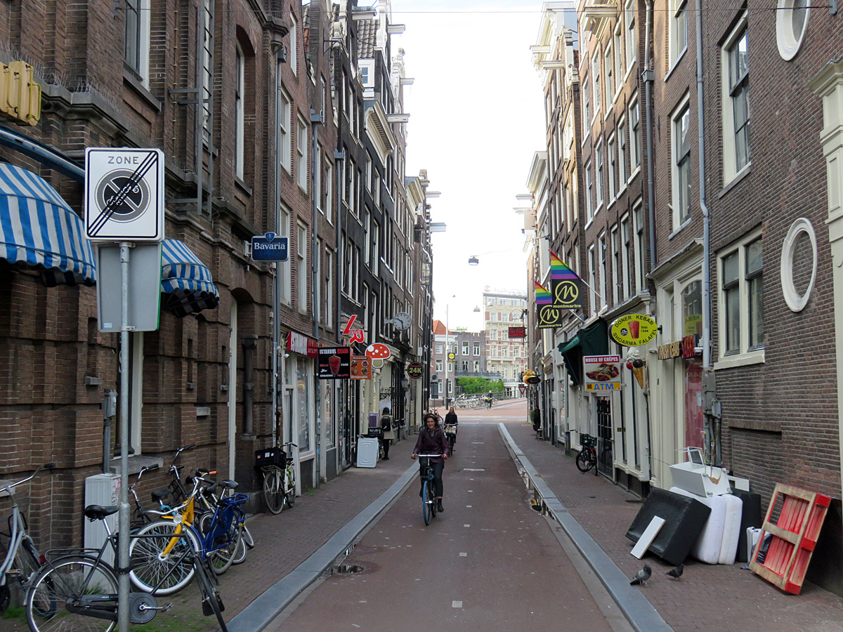 Halvemaansteeg in Amsterdam, seen from Rembrandtsplein towards Amstel.